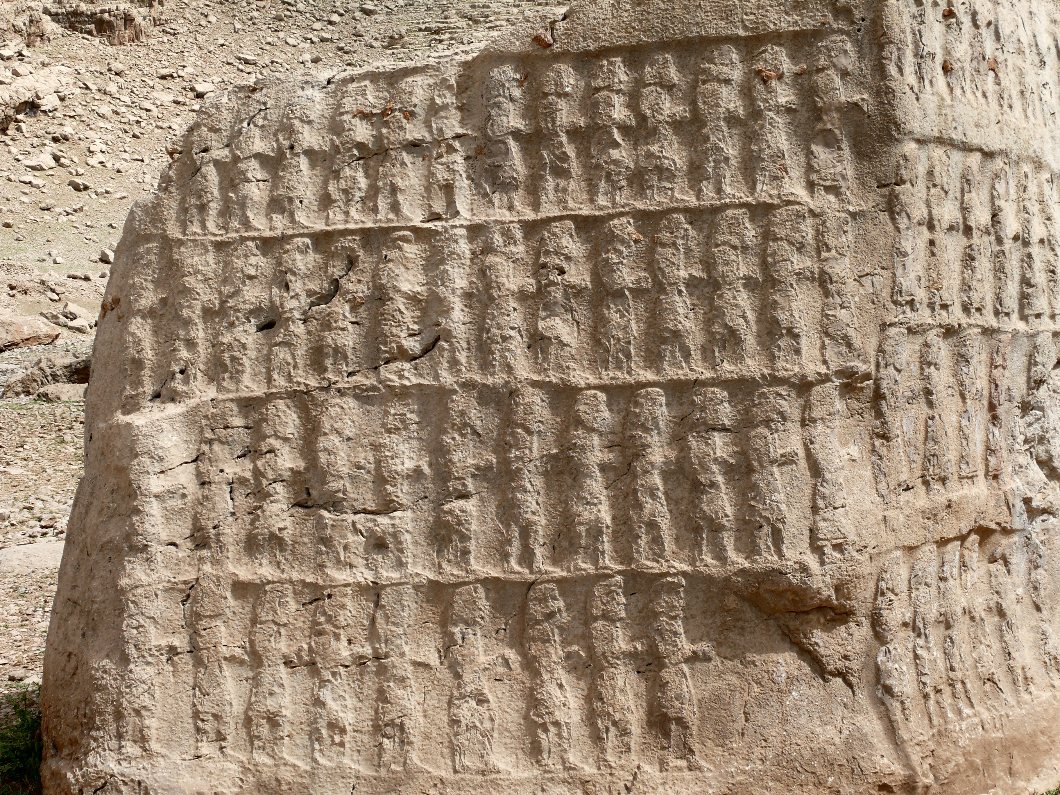 West side of the elamite rock relief said “Kul-e farah III” depicting a religious office with animal sacrifice (Indian bulls) with representation of a Priest, king, and prayers. VIIIth to VIIth century BCE. Site of Kul-e Farah, city of Izeh, Khouzestan province, Iran